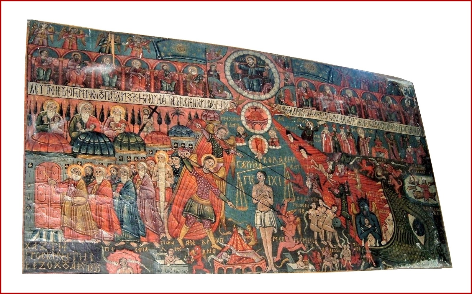 Second Coming from Mary Eleousa Church in Kastoria 1835